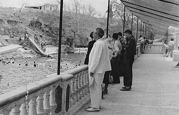 Leon Trotsky in Mexico, 1938